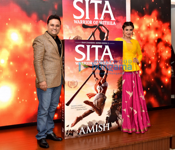 Raveena Tandon launches the book ‘Sita – Warrior of Mithila’ written by Amish